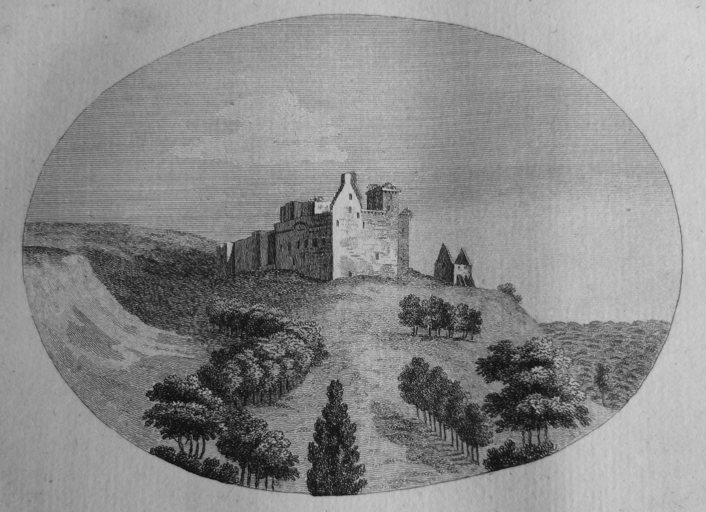 Ruins of Crichton Castle (18thC)